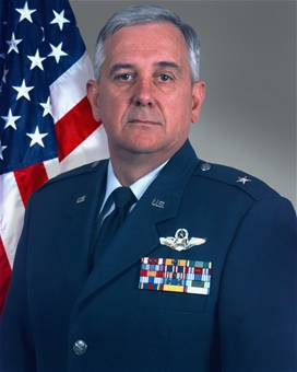 Photo of Brod Veillon, taken from U.S. Department of Defense server / website archive link. The Louisiana National Guard is an agency of the Federal Government of the United States of America.